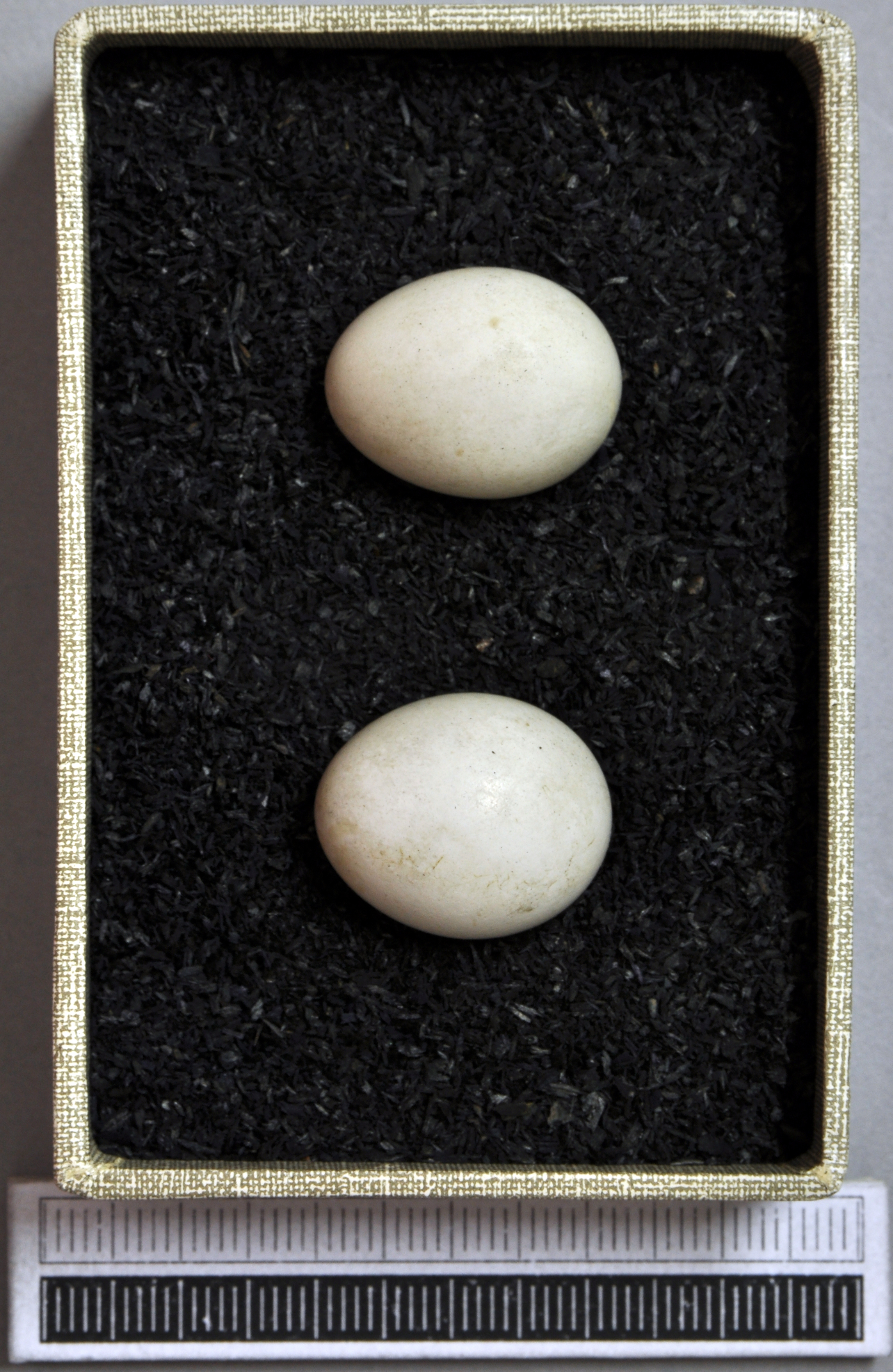 Eastern bluebird Sialia sialis , egg, Coll. Museum Wiesbaden